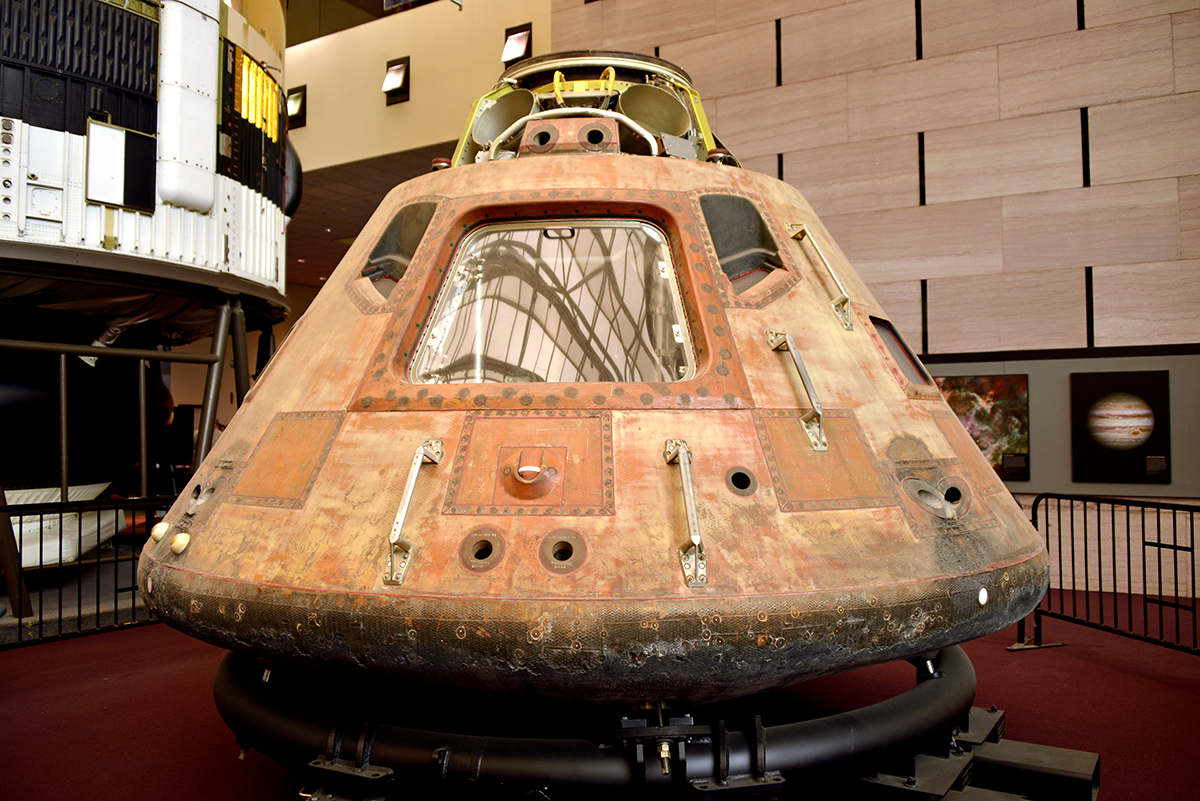 Columbia on display in the Milestones of Flight exhibition hall at the National Air and Space Museum.